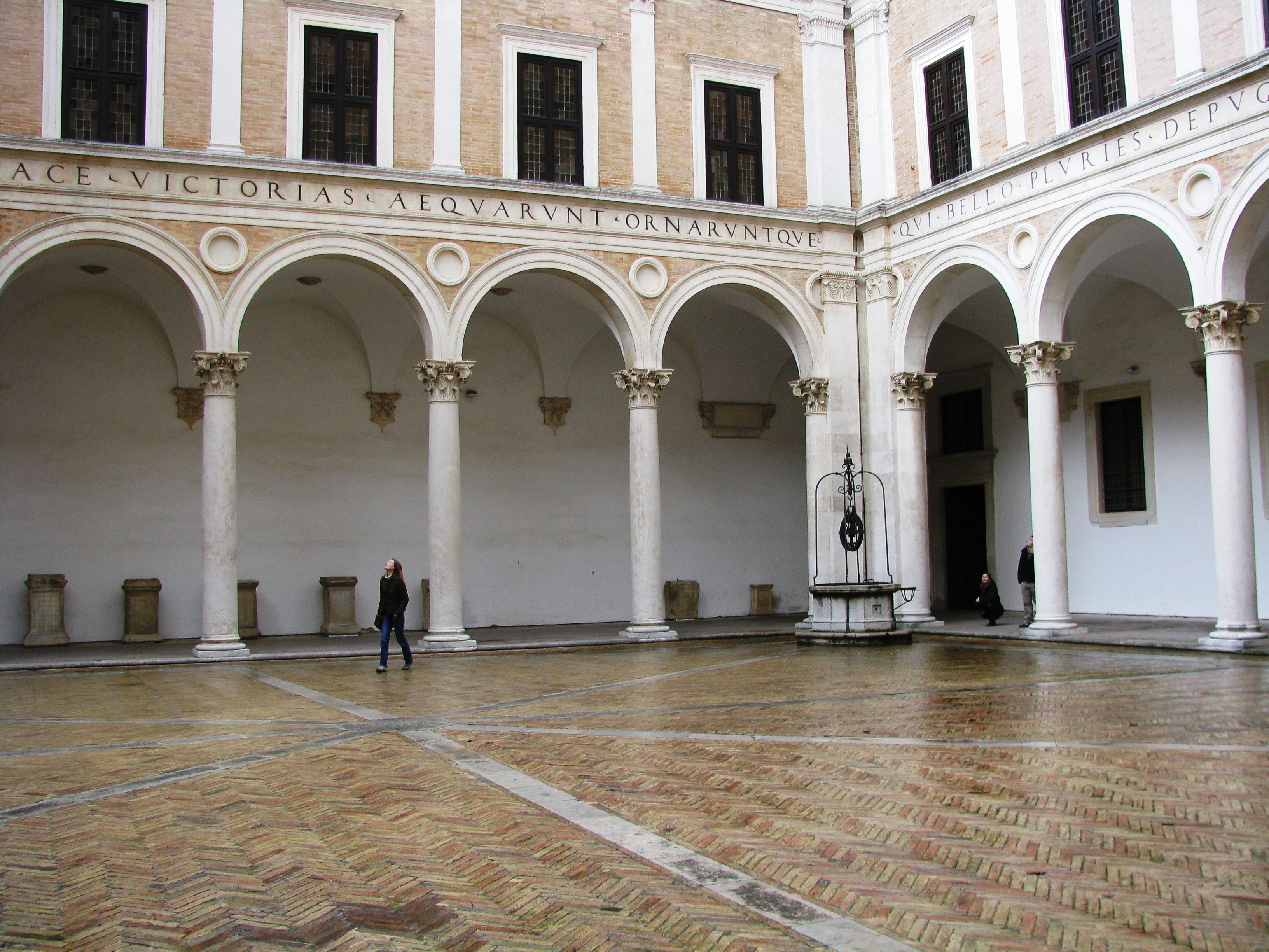 see above